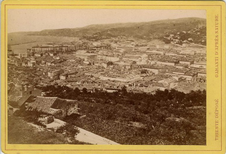 Giuseppe Wulz (1868-1918), Trieste.